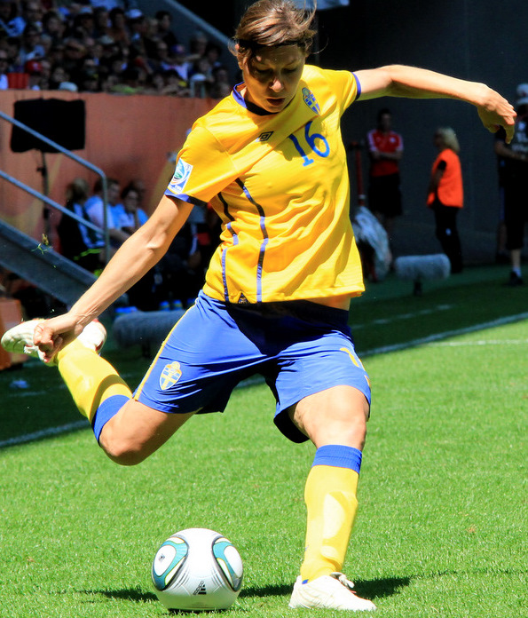 Linda Forsberg playing for Sweden in the 2011 FIFA Women's World Cup